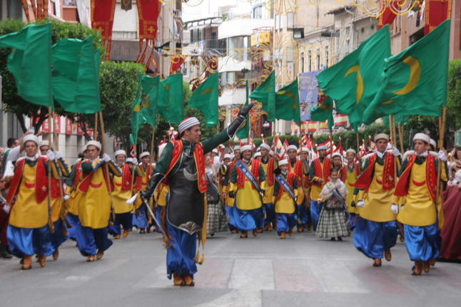 Comparsa del Bando Marroquí de Villena